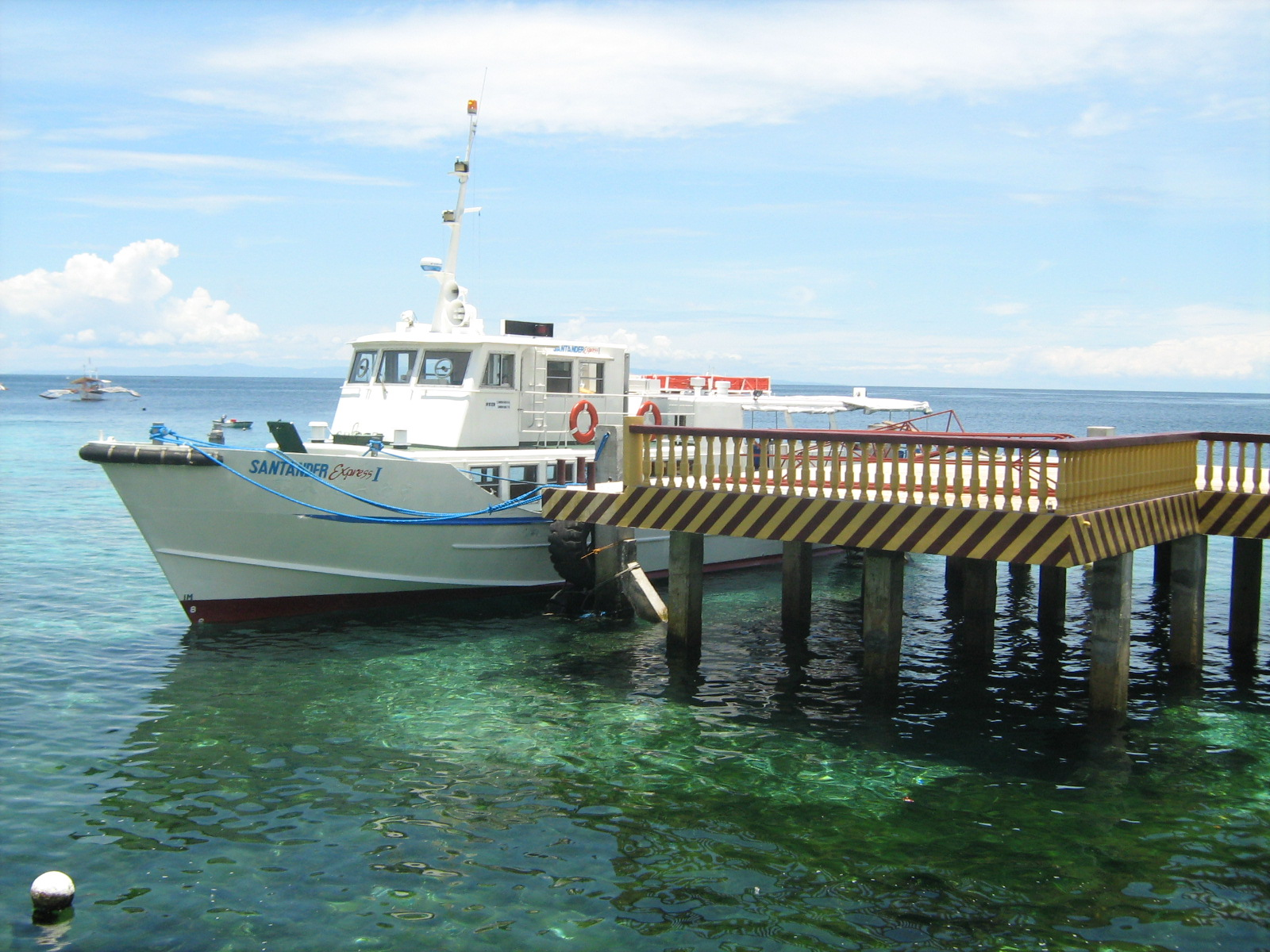 Fast craft port in Santander, Cebu, Philippines